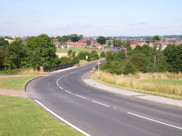 Kirkthorpe Village